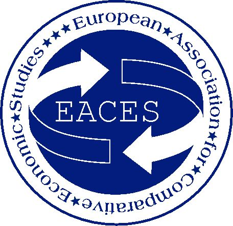 logo EACES (European Association for Comparative Economic Studies)